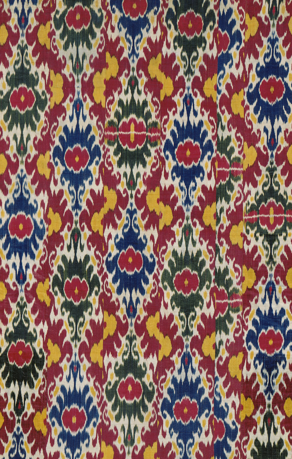 Ikat dyed silk warp, undyed cotton weft H: 227.8 W: 148.0 cm Uzbekistan Gift of Guido Goldman, S2006.10